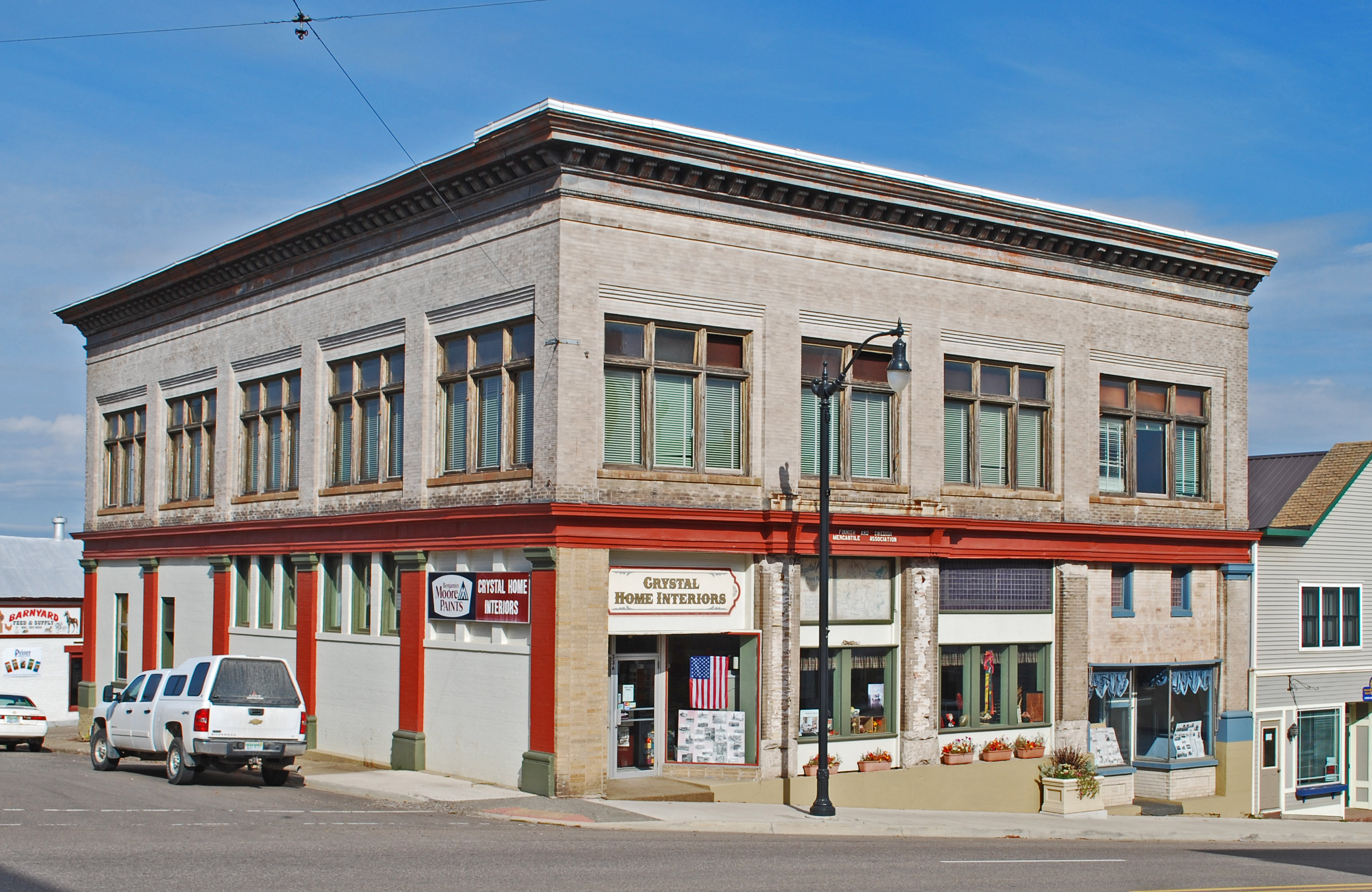 Finnish and Swedish Mercantile — Crystal Falls, Upper Michigan. This is a commercial block built in 1908 for a co-operative grocery and department store collectively owned by local Finns and Swedes. It is significant as a historical reminder of the large Scandinavian population of Crystal Falls in the early 20th century.